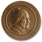 Heads side of the Rosa Parks Congressional Gold Medal presented to Rosa Parks on 28 November 1999. Designed by Artis Lane.